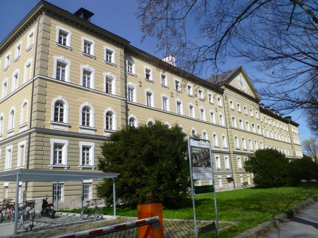 Municipal retirement home, Salzburg, Austria; former military barracks